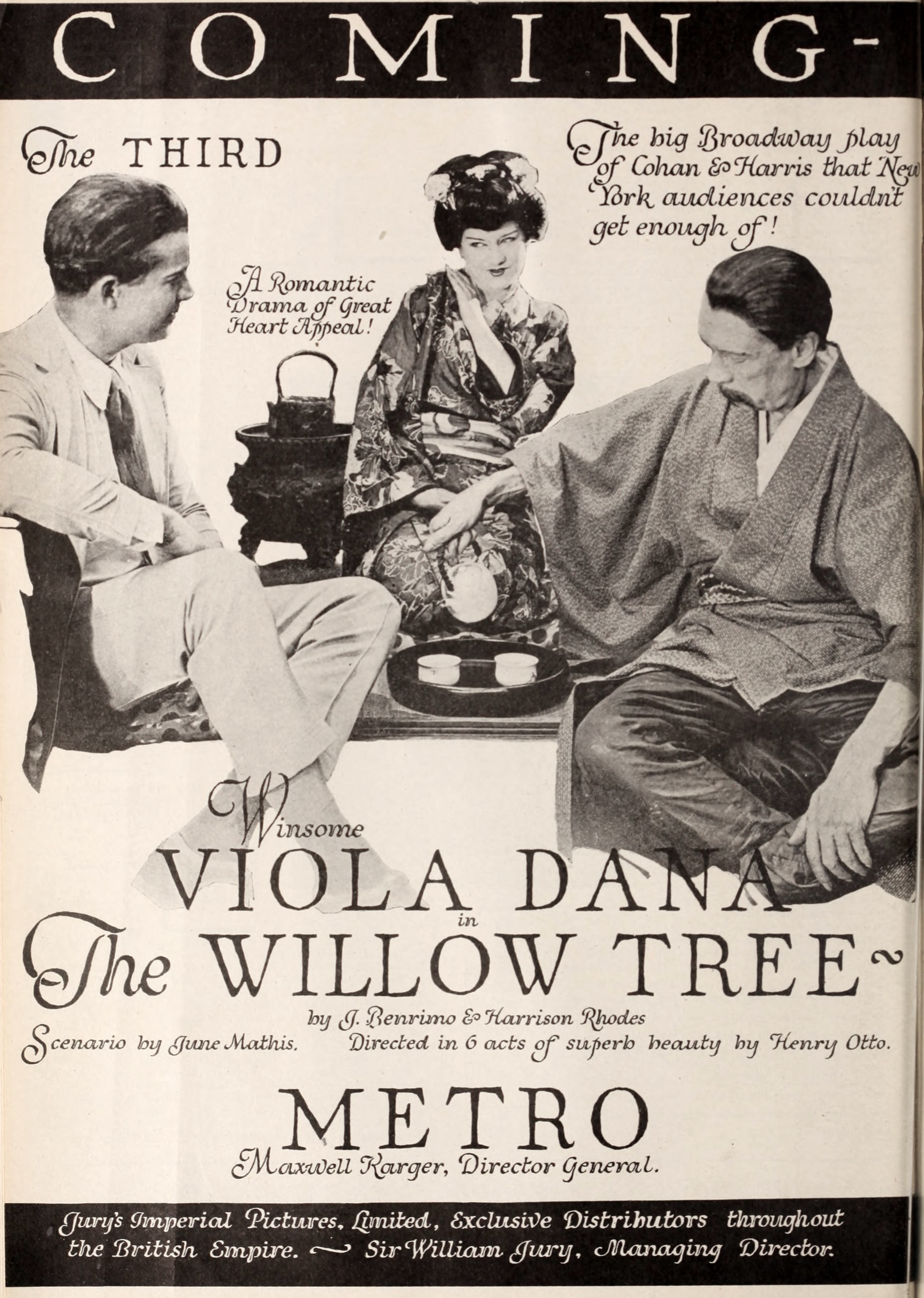 Ad with Viola Dana for the film The Willow Tree (1920).